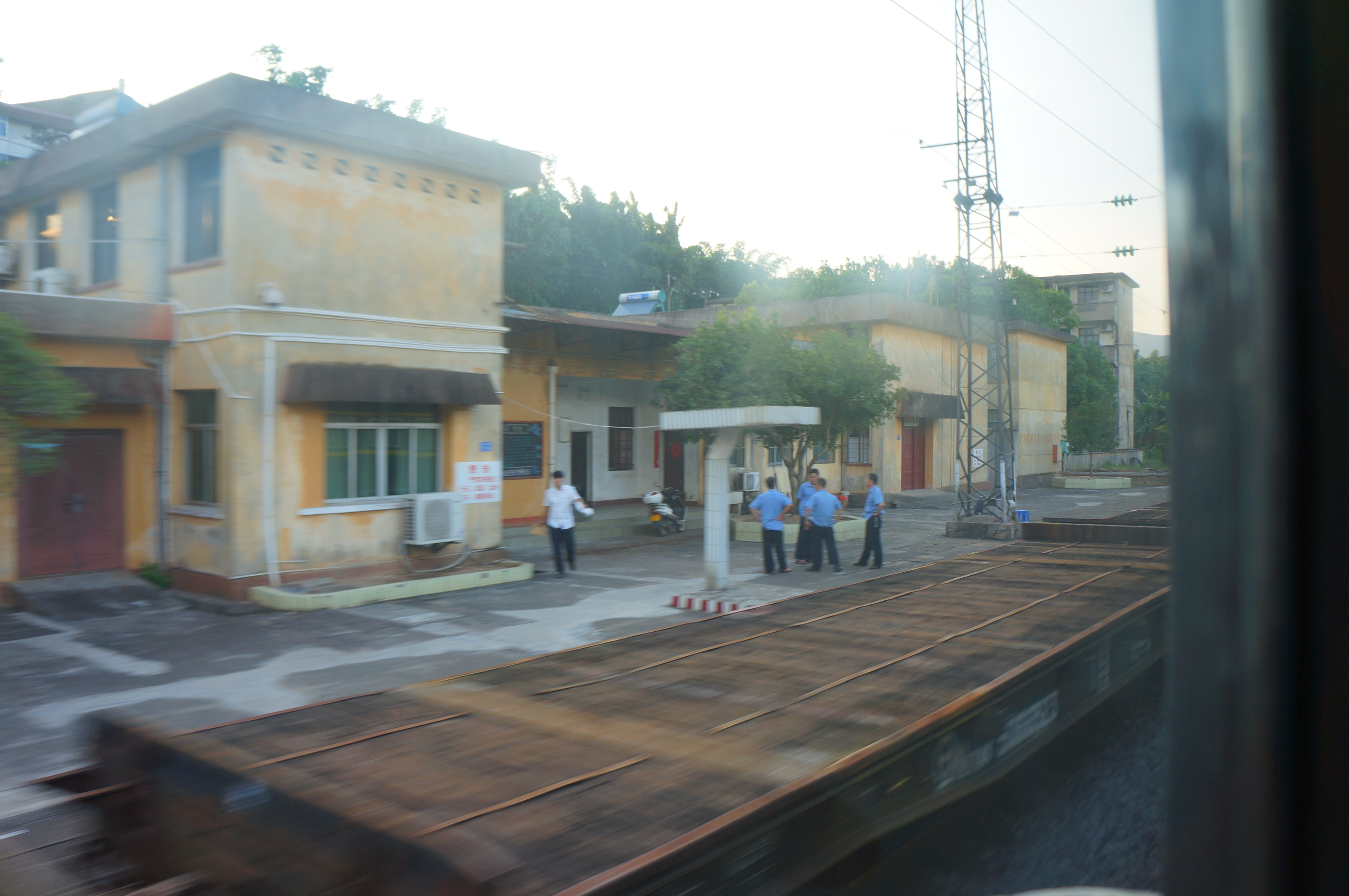 201708 Qingzhou Station